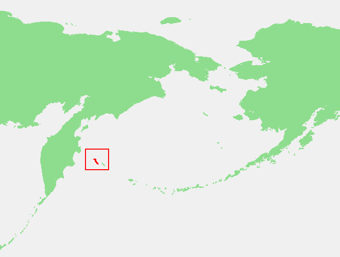 Location of Bering Island, Russia